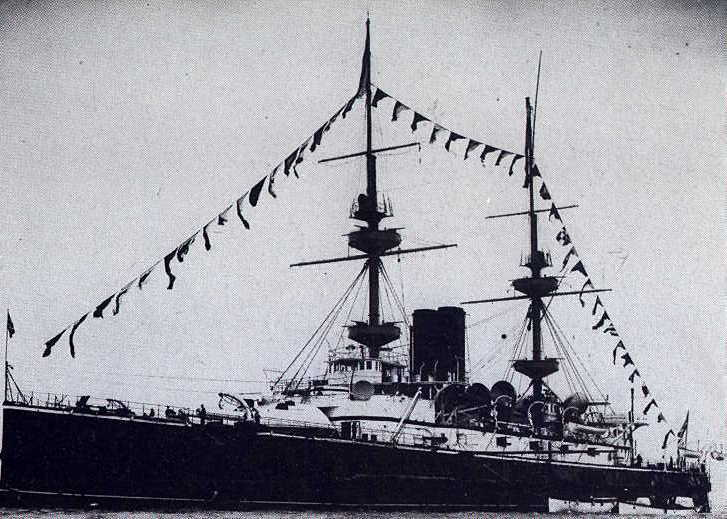 HMS Mars (1896) at Coronation Fleet Review 16 August 1902